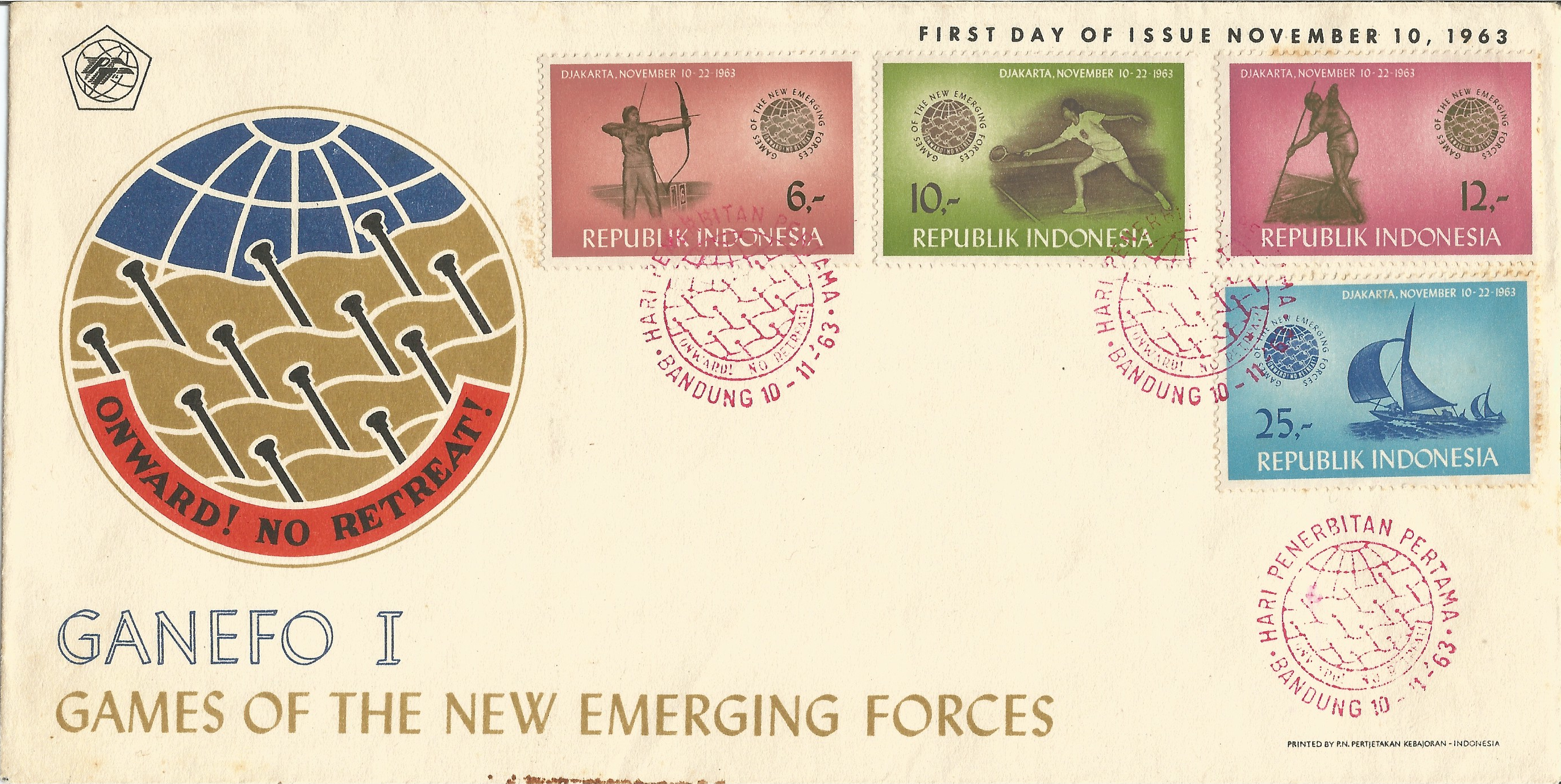 Commemmorative stamps of the "1st Games of the New Emerging Forces"